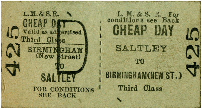 LMS Saltley to Birmingham New Street third class cheap day railway ticket. Wingate Bett Transport Ticket Collection Vol.86 - 4